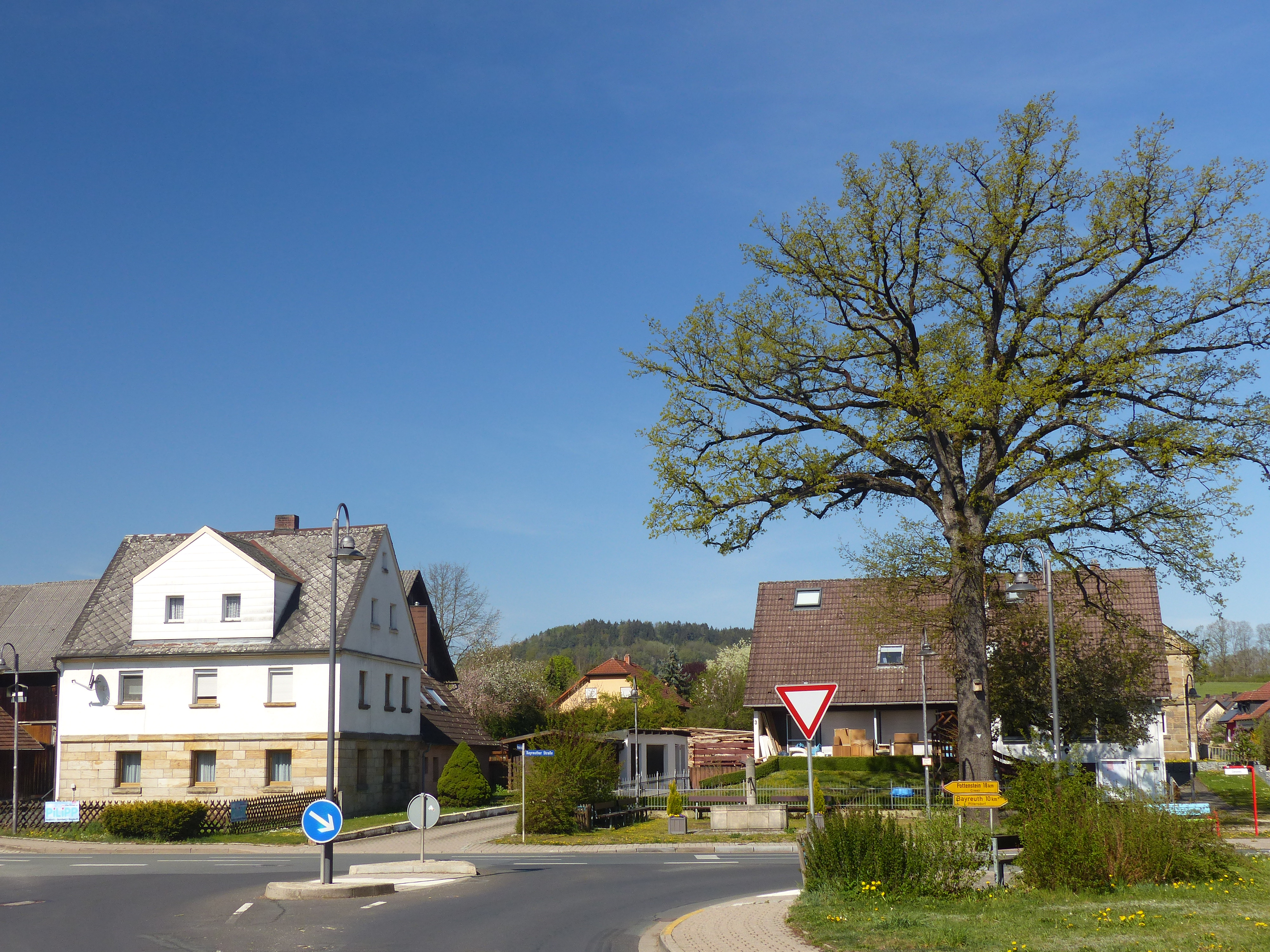 The parish village Pettendorf, a district of the municipality of Hummeltal.